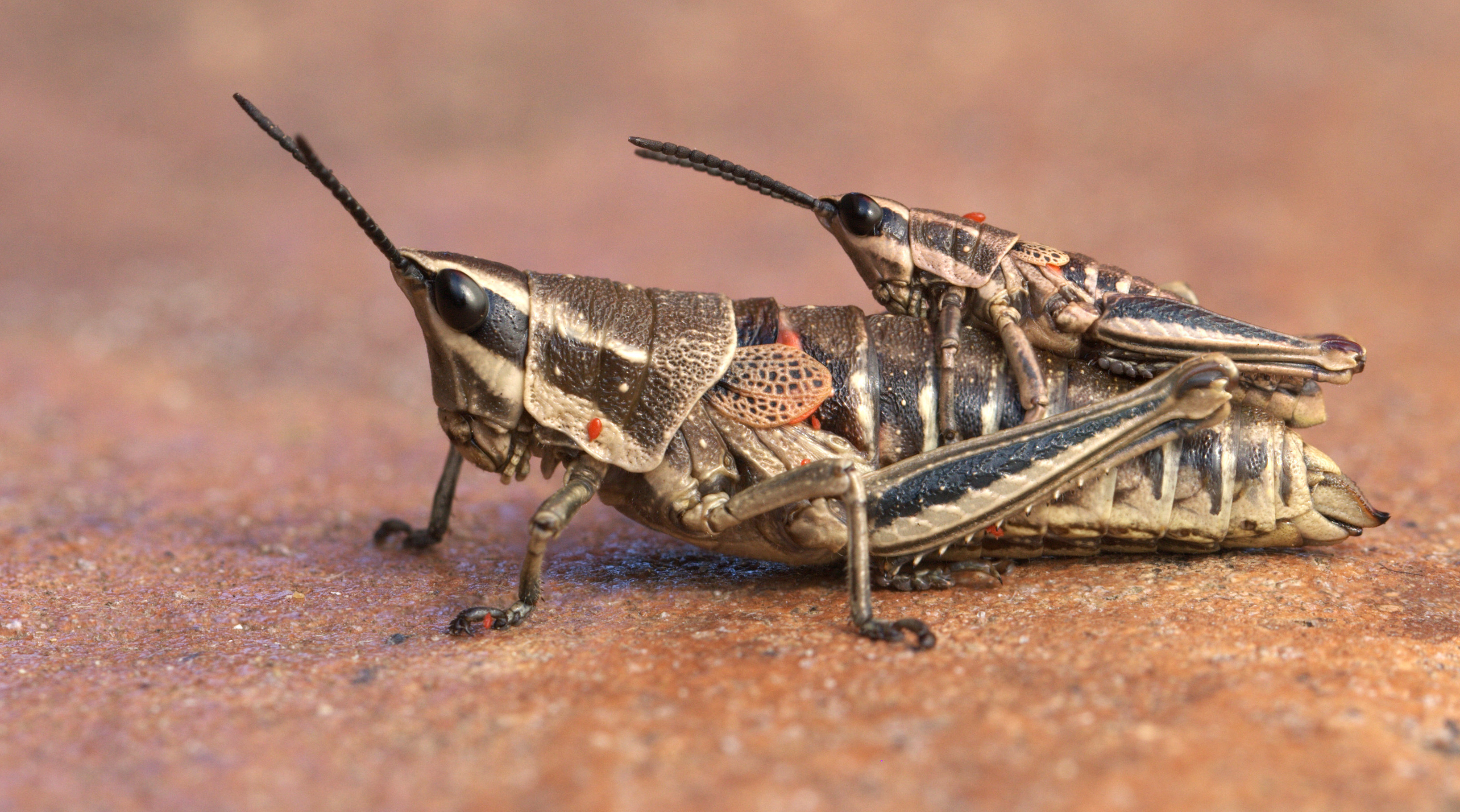 A pair of Pyrgomorph grasshoppers in Kioloa, New South Wales, Australia. They look like Monistria concinna according to Martyn Robinson, a naturalist at the Australian Museum. This image has been focus-stacked.